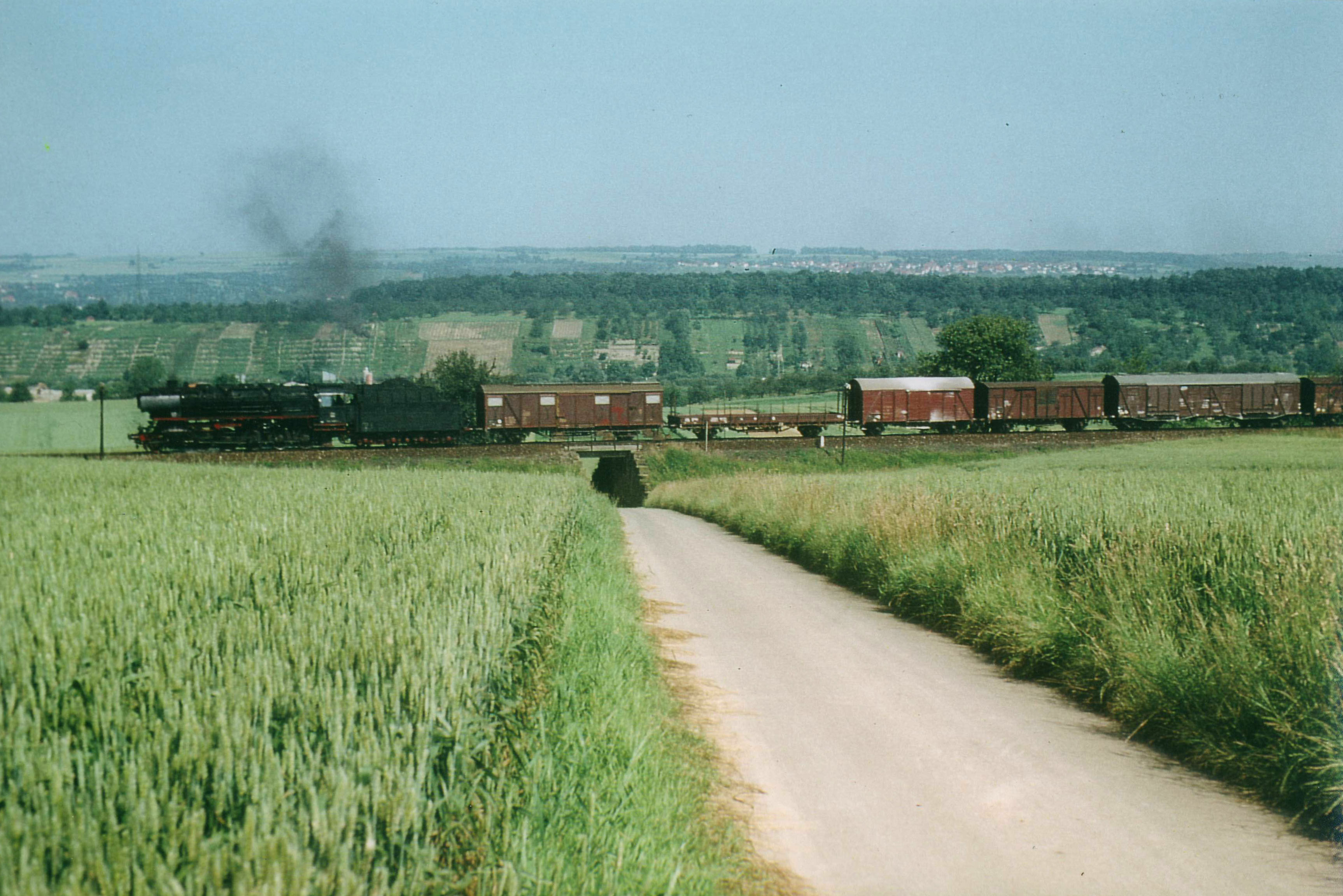 Steam-powered train between Benningen am Neckar and Beihingen am Neckar, May 1972